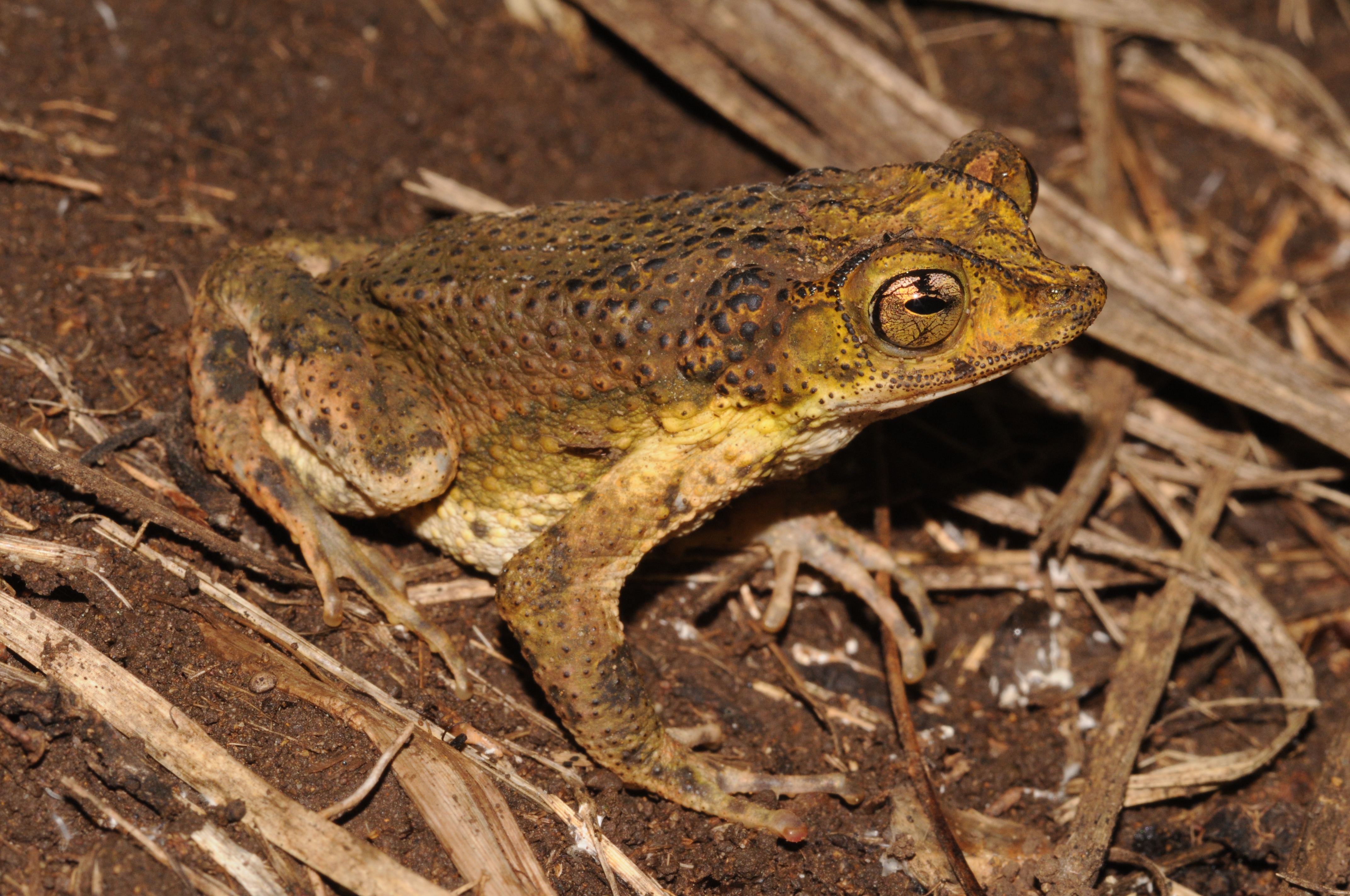 Puerto Rican Crested toad Common name